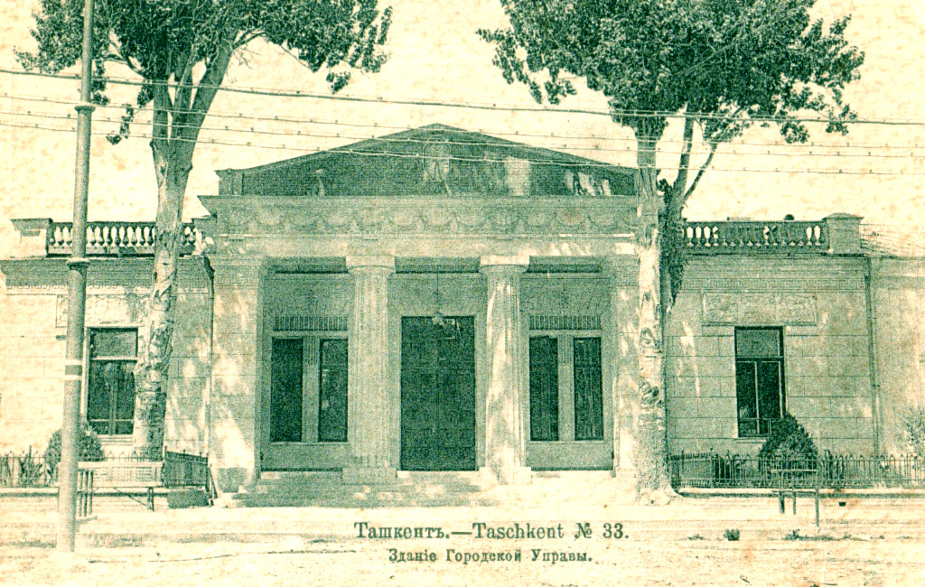 Tashkent. The building of town council